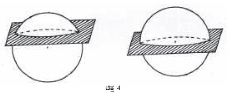 diagrams